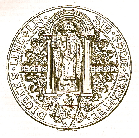 Seal of the Lincoln Architectural and Archaeological Society engraved by Orlando Jewitt